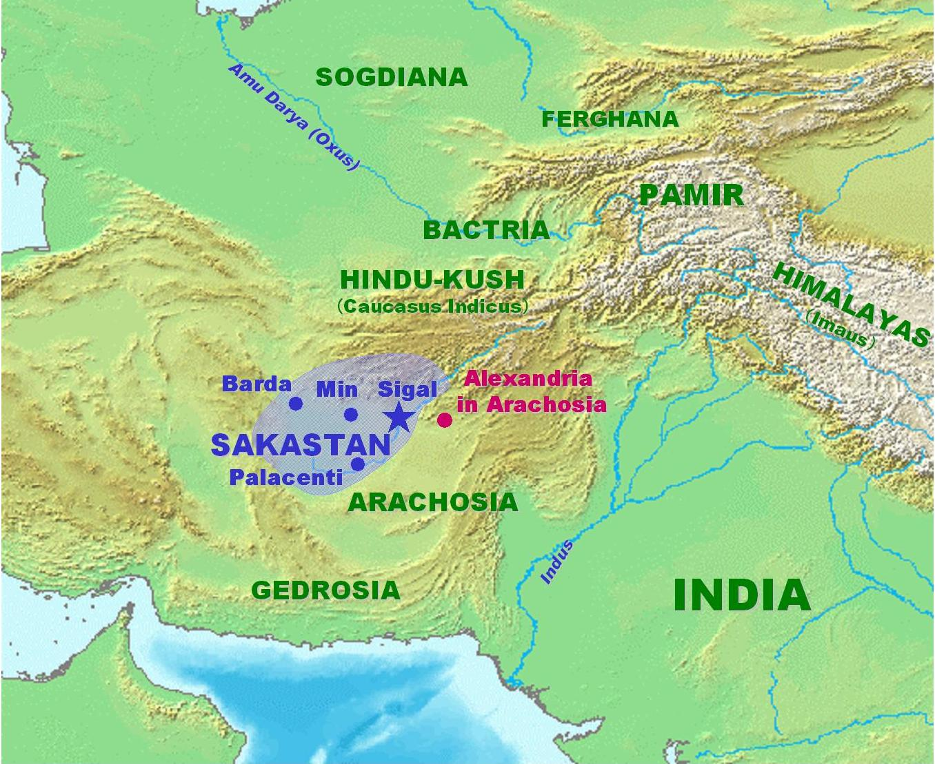 Map of Sakastan circa 100 BCE. Own work.